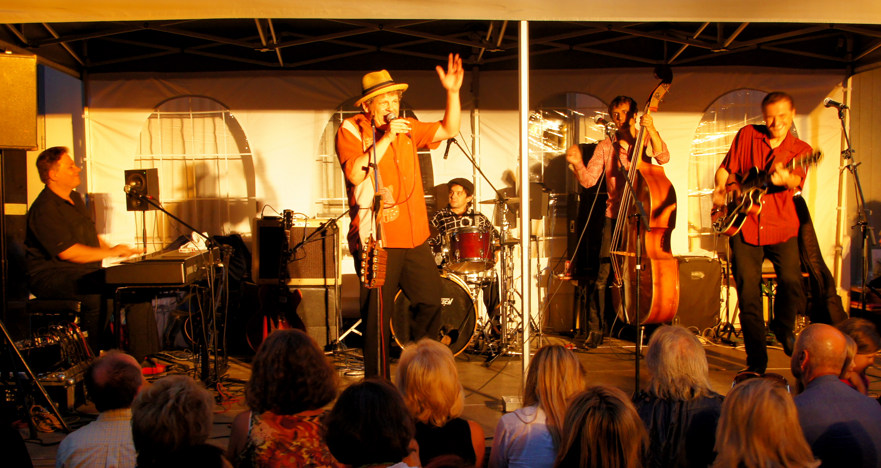 Mojo Blues Band performing for 'Neudeggergassenfest' (one of Vienna's numerous 'little' street festivals).